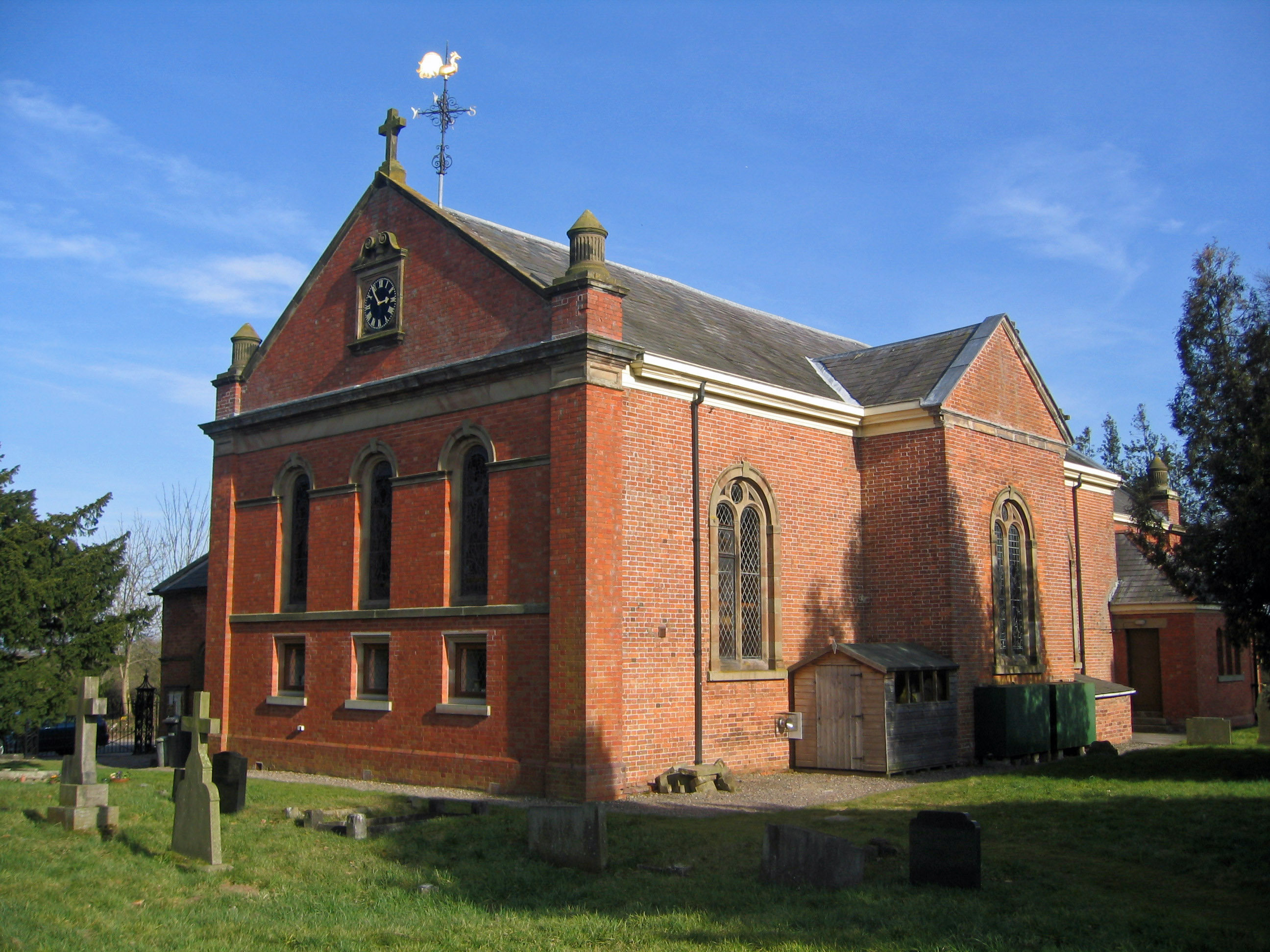 Photograph of St Mary's and St Michael's Church, Burleydam, Cheshire, England, from the southwest